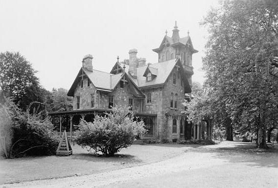 "Glenloch," (William E. Lockwood residence), Fraser, PA